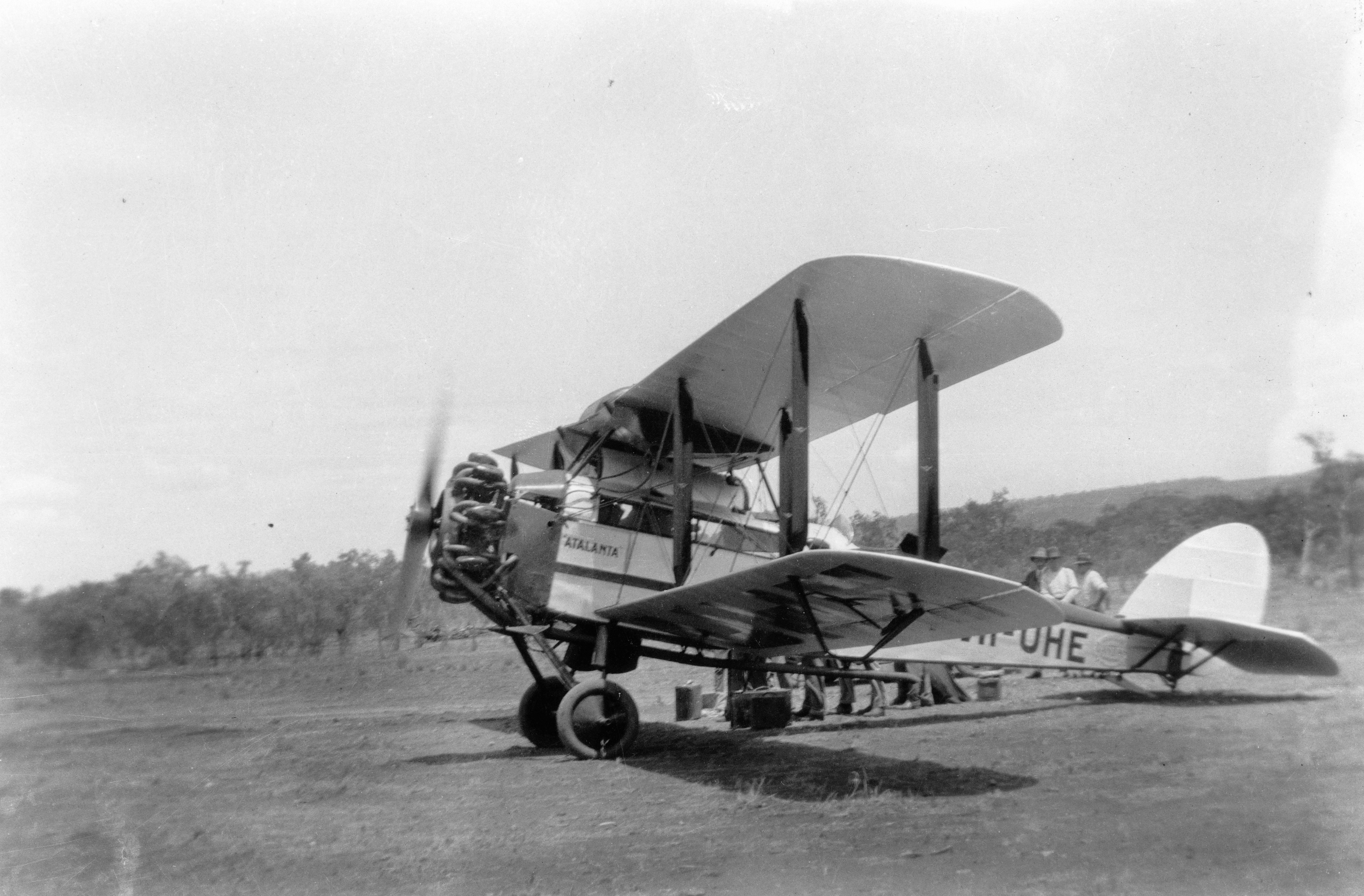 Atalanta (registration VH-UHE), a De Havilland DH.50J biplane with Bristol Jupiter radial engine, ca. 1930. Atalanta was a Qantas plane which crashed 3 October 1934.